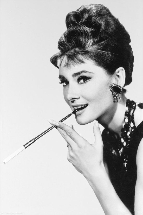 Audrey Hepburn smokes